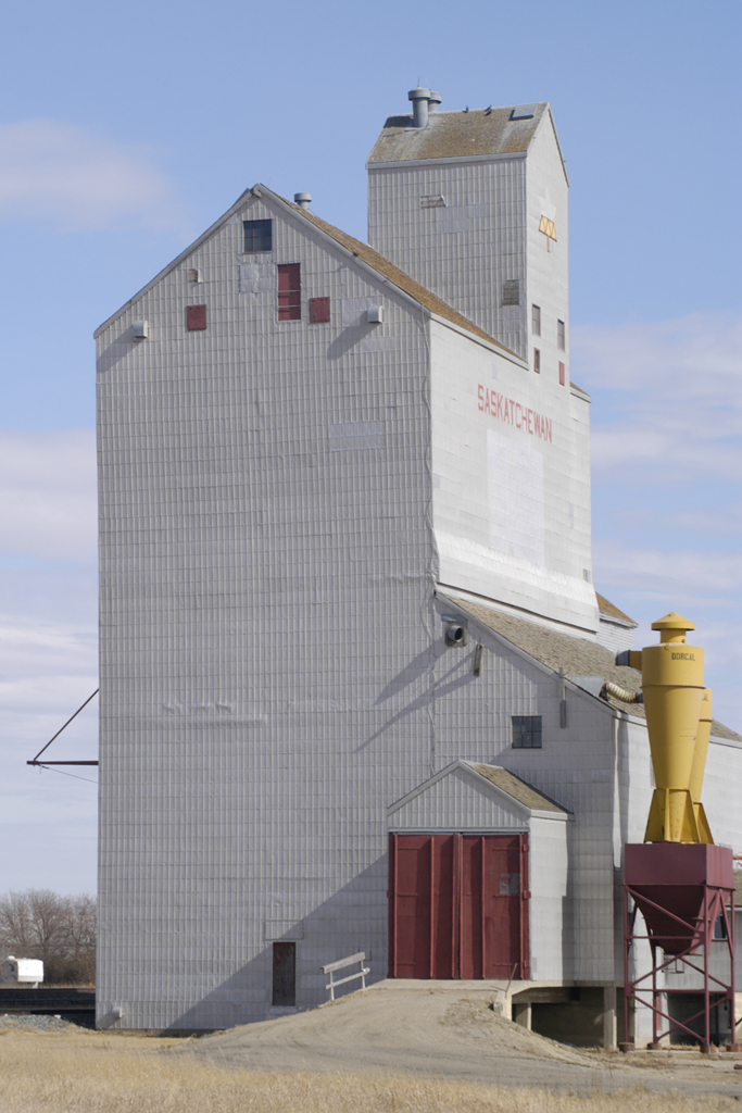 Ex POOL elevator at Lang Saskatchewan